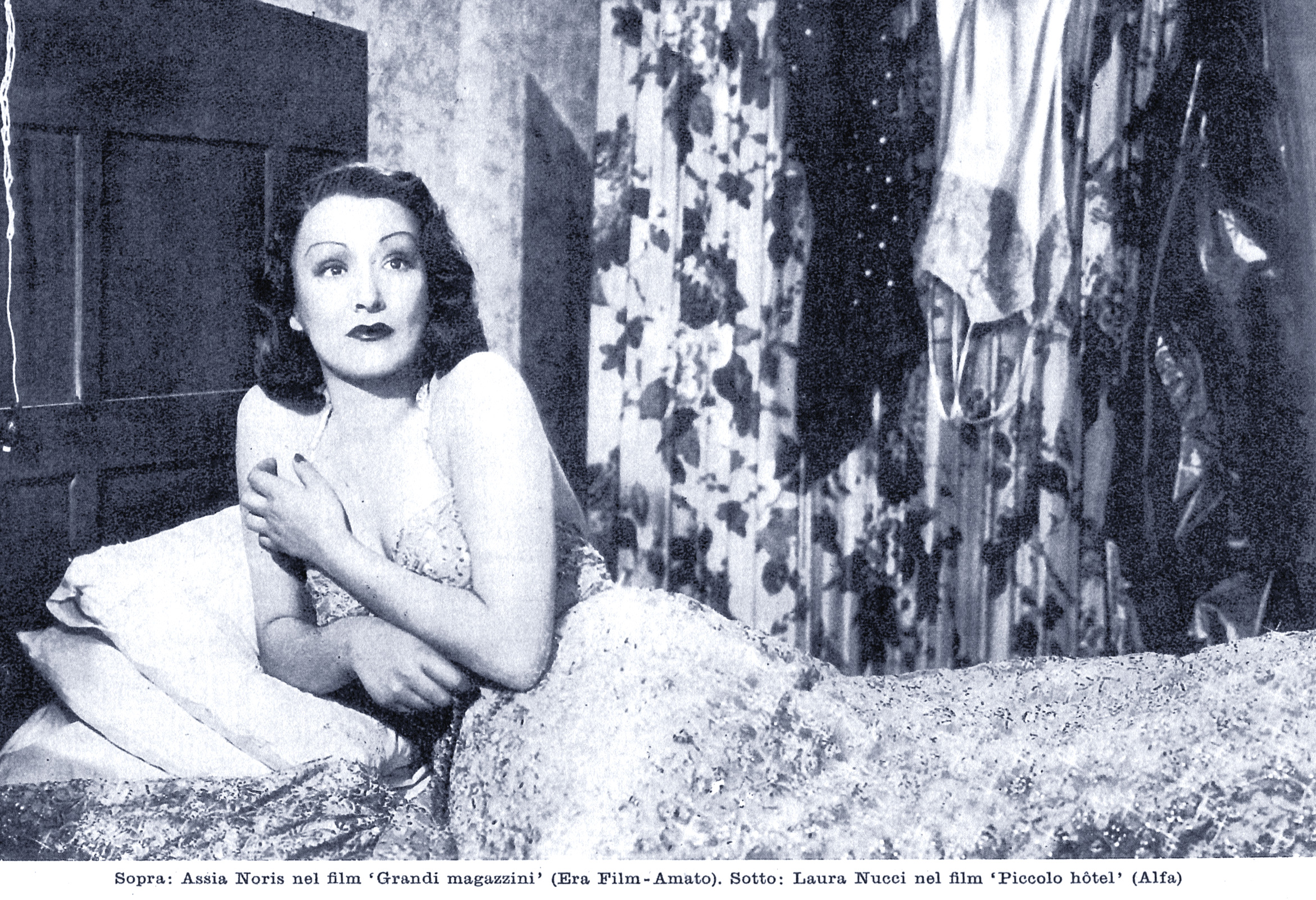 L'attrice Laura Nucci come appare in Piccolo hotel (Ballerini, 1939)